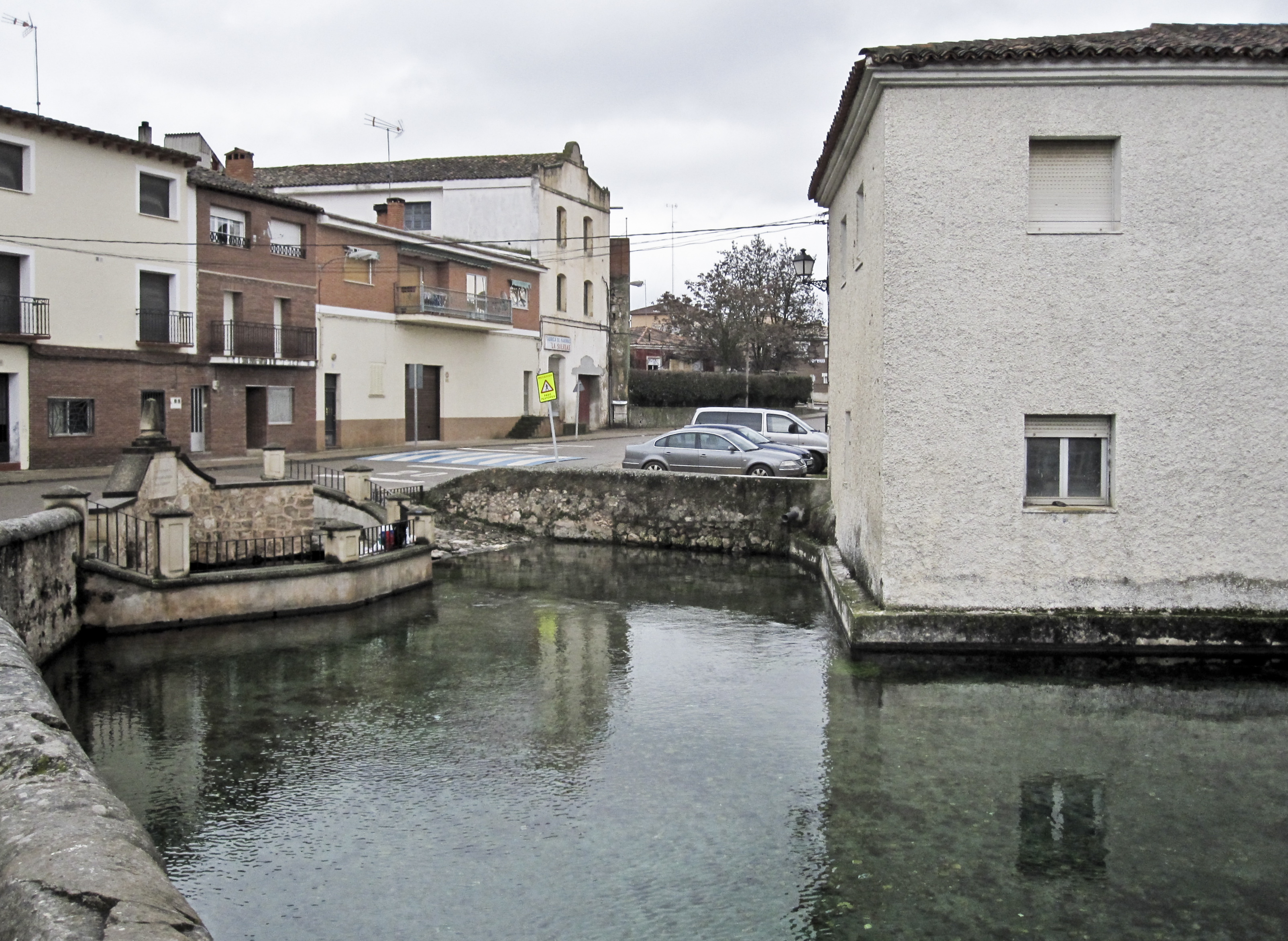 Cifuentes, Spain. Water pond.